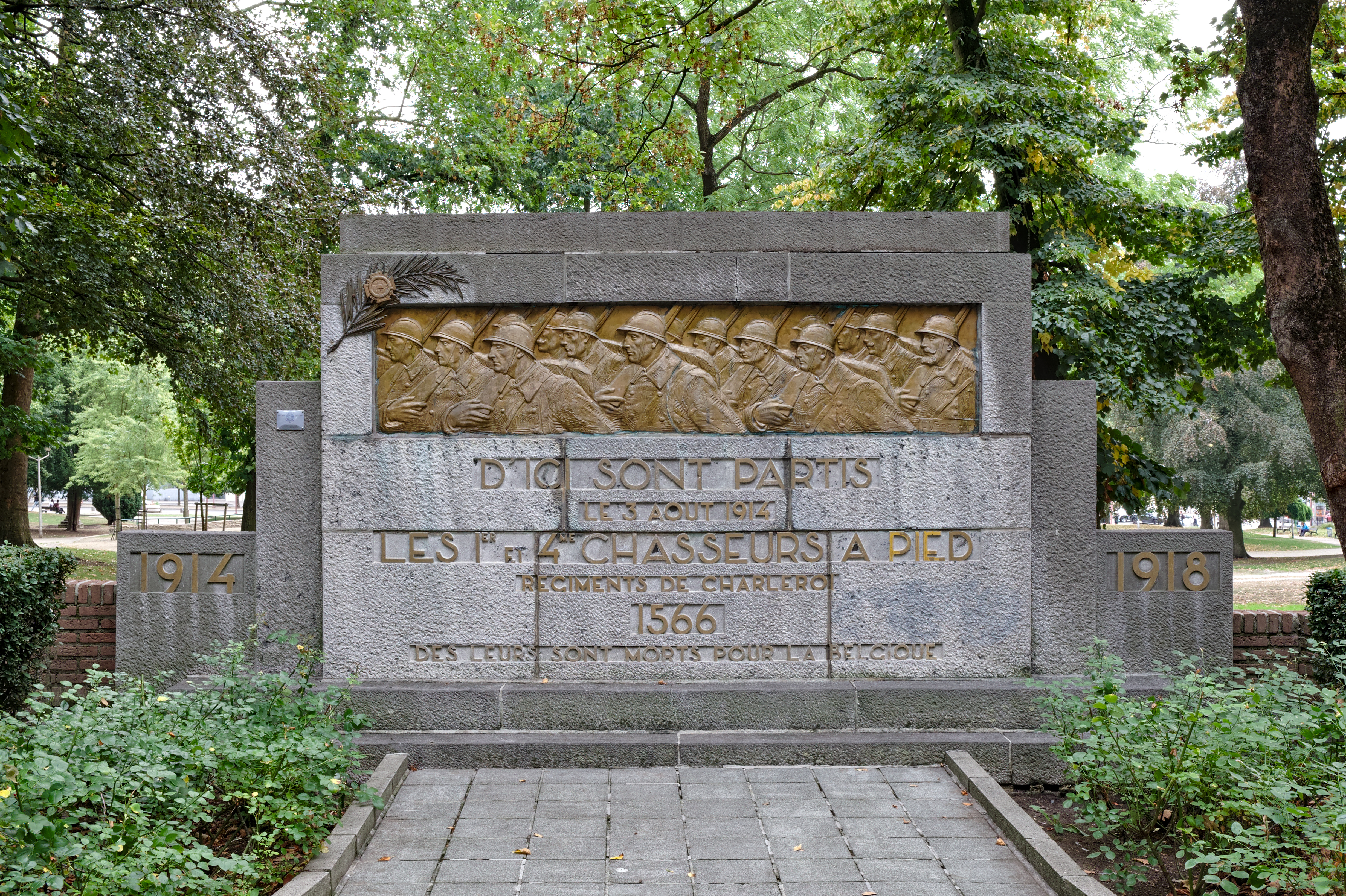 World War I memorial in Parc Reine Astrid, Charleroi This photo of immovable heritage has been taken in the Walloon Region